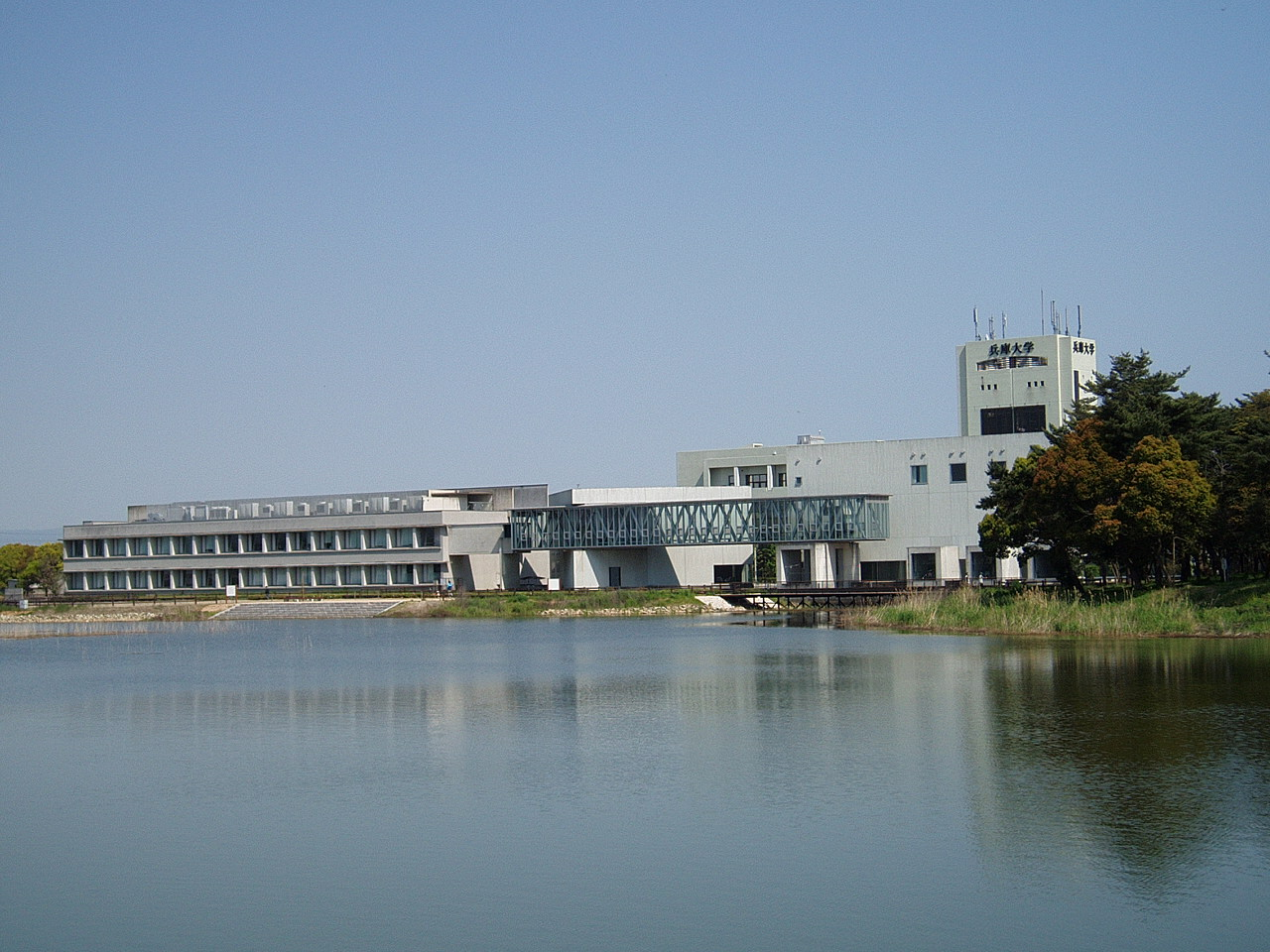 Hyogo University and Terada Pond, located in Kakogawa, Hyogo Pref., Japan.